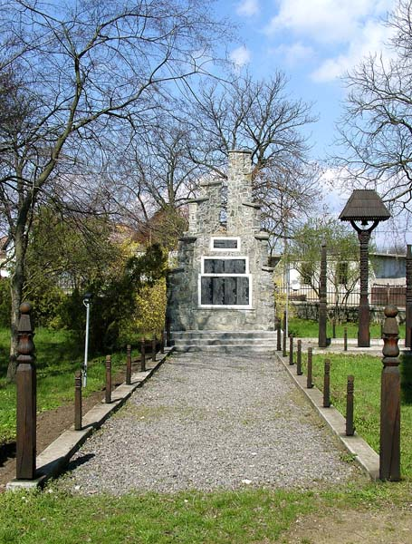 memorial in Kraszna (Crasna, Sălaj county, Romania)